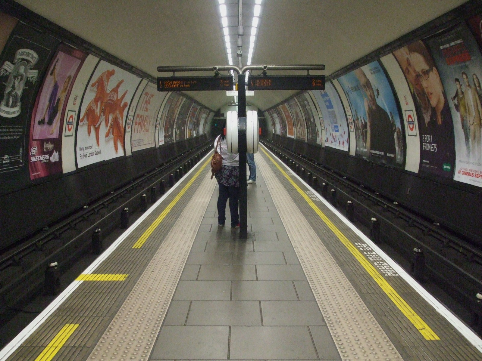 Clapham Common tube station island platform looking north